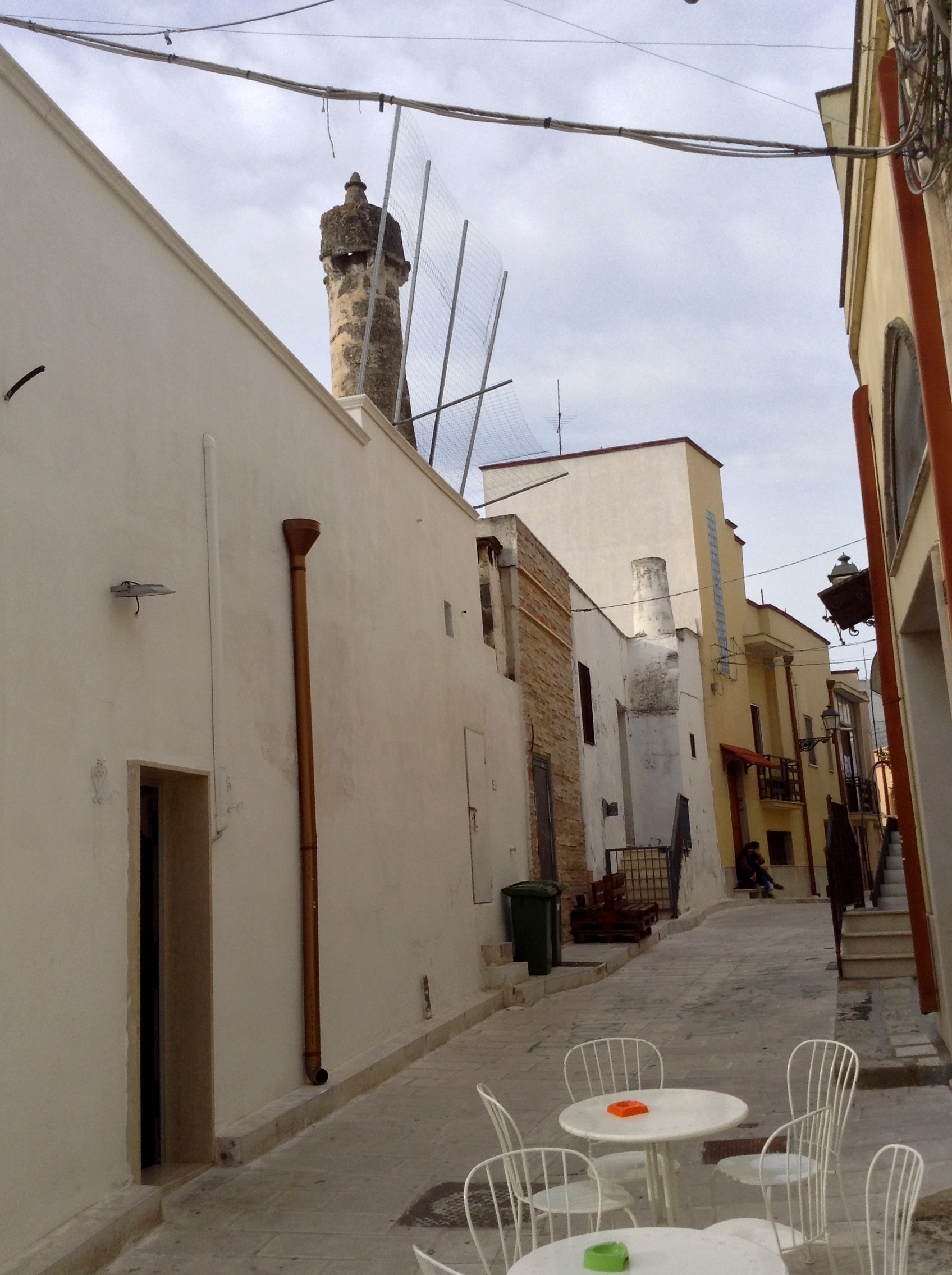 Typical Arbëreshë chimneys in San Marzano di San Giuseppe